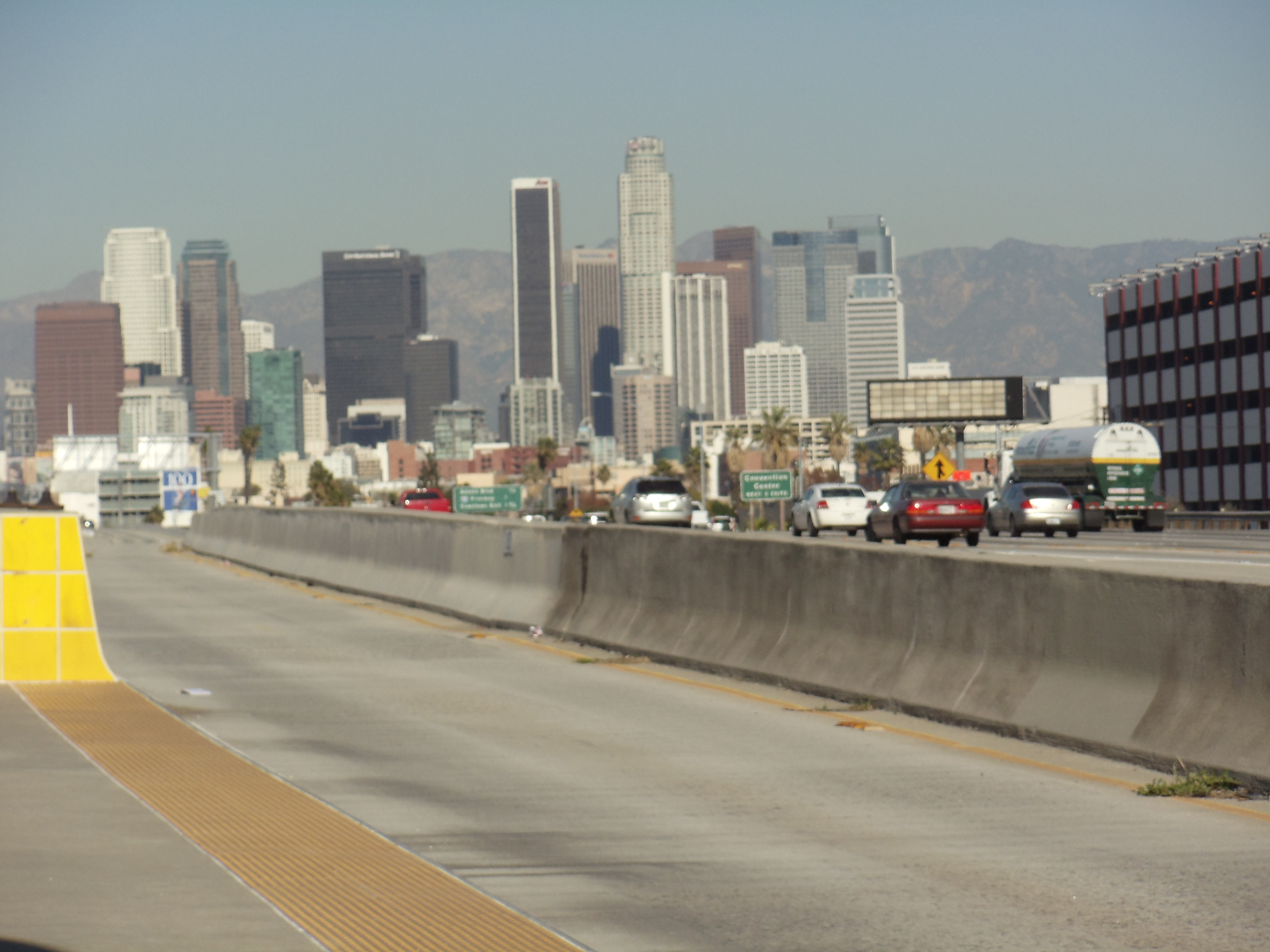 Platform - 37th Street & USC Metro Silver Line Station.